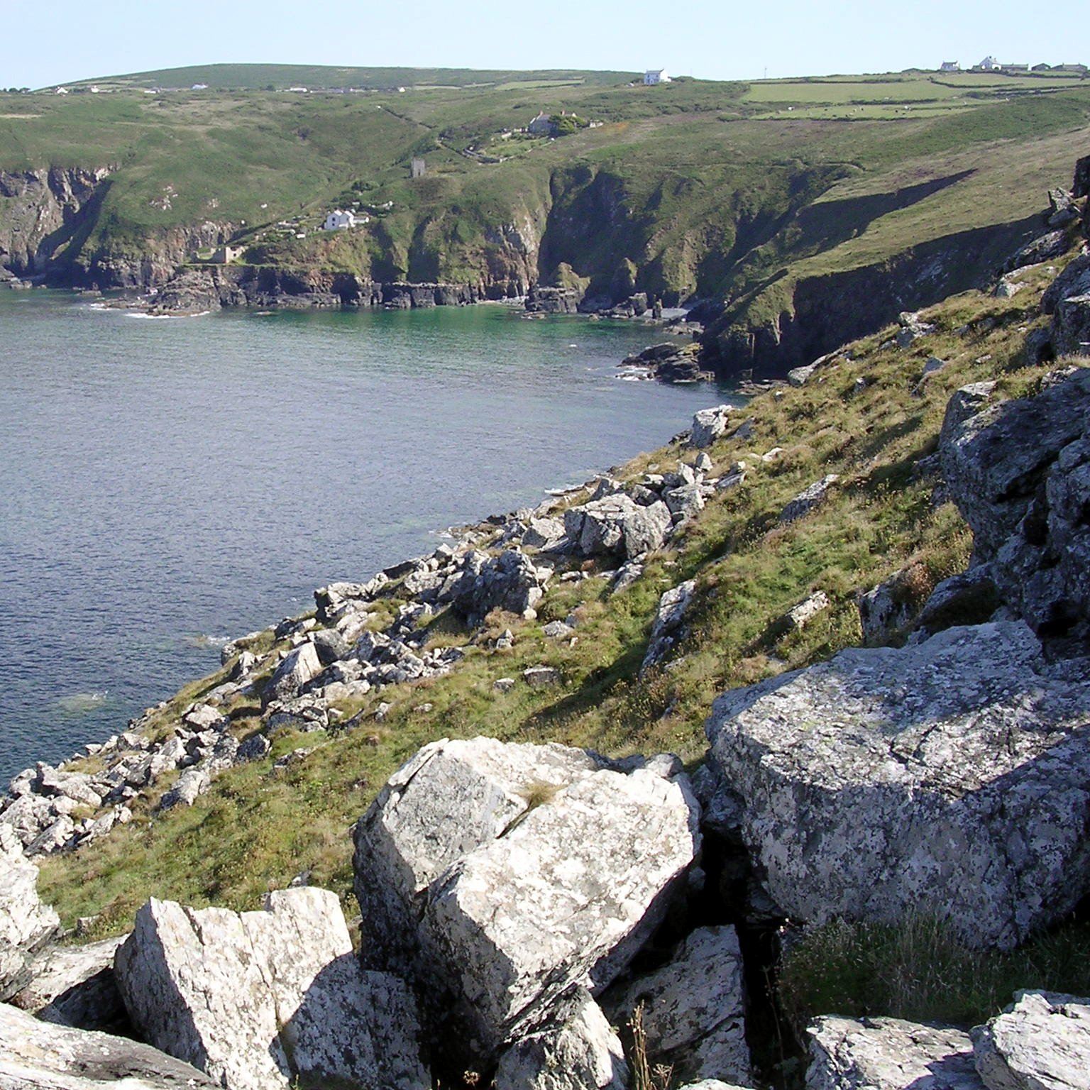 Treen Cove at high tide, with the sandy beach completely submerged. View from Gurnard's Head to the northwest.